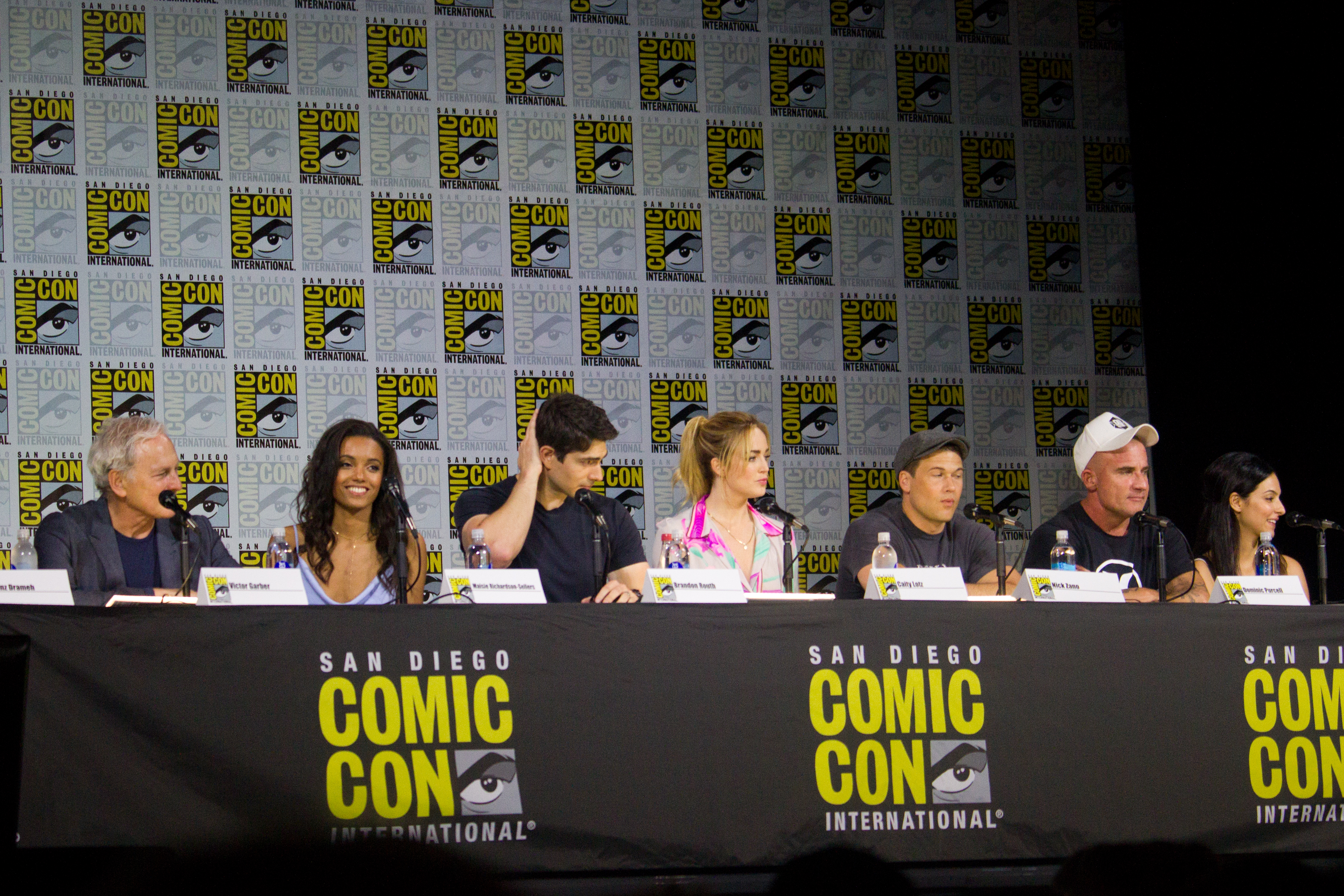 Legends of Tomorrow Cast & creators panel at SDCC 2017